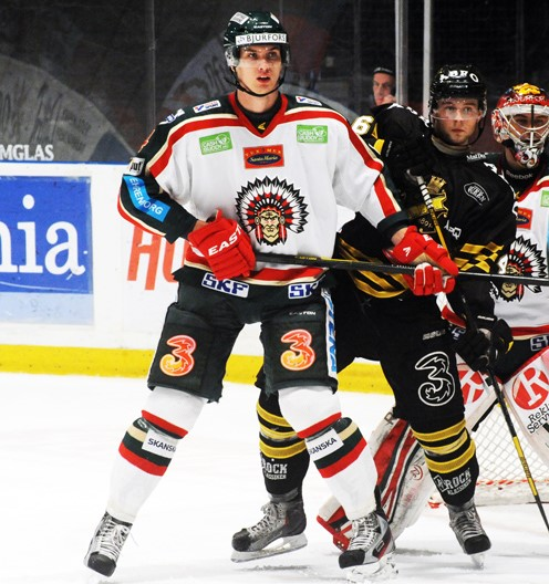 Cropped photo of Swedish ice hockey player Viktor Svedberg.